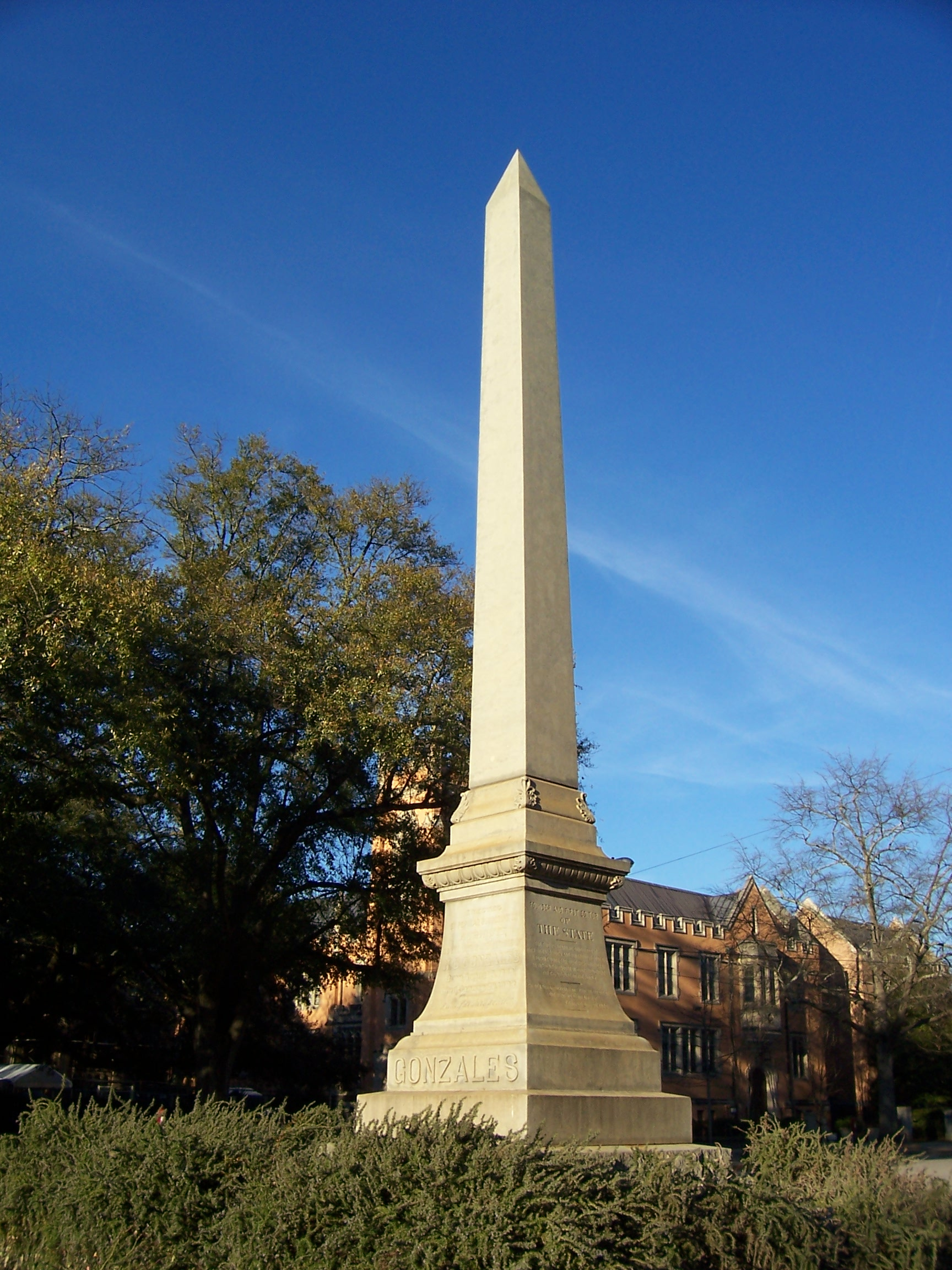 Obelisk honoring Narciso Gener Gonzales, cofounder of The State newpaper and murdered in 1903 by the Lieutenant Governor of South Carolina for his negative reporting. The murderer was acquitted by an all-white jury.